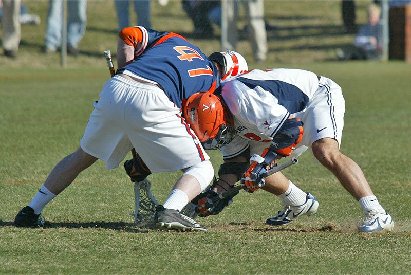 A faceoff during a Division I lacrosse game between the Syracuse Orange and Virginia Cavaliers